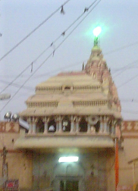 The shikhara of Vithoba temple, Pandharpur along with west gate